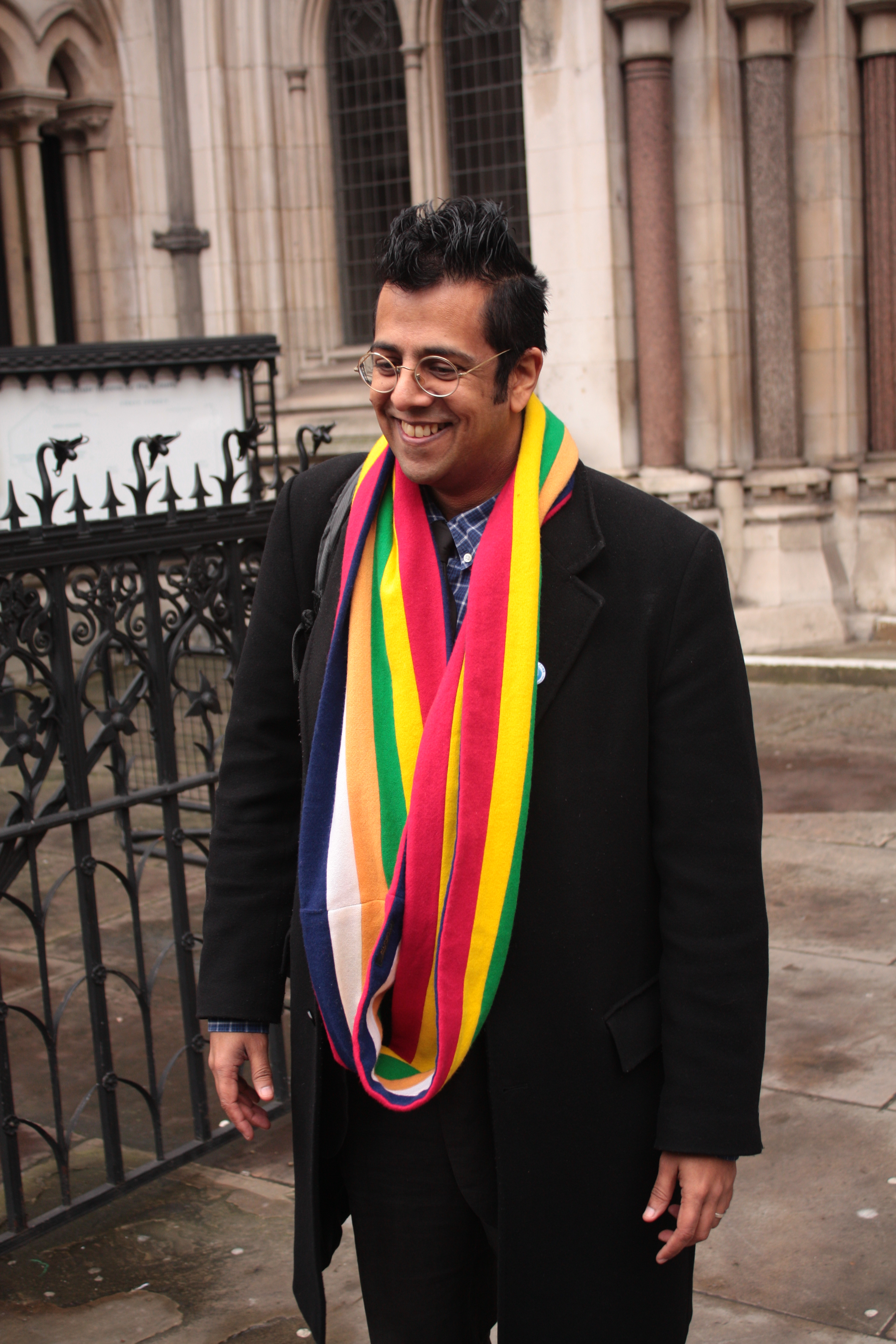 Science writer Simon Singh at the Royal Courts of Justice, 23rd February 2010. Simon's scarf is a version of the Möbius strip, an surface with only one side. (Photo: Robert Sharp / English PEN)